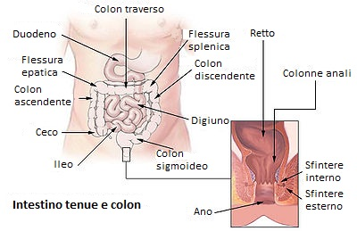 ==Italian version of Illu intestine.jpg